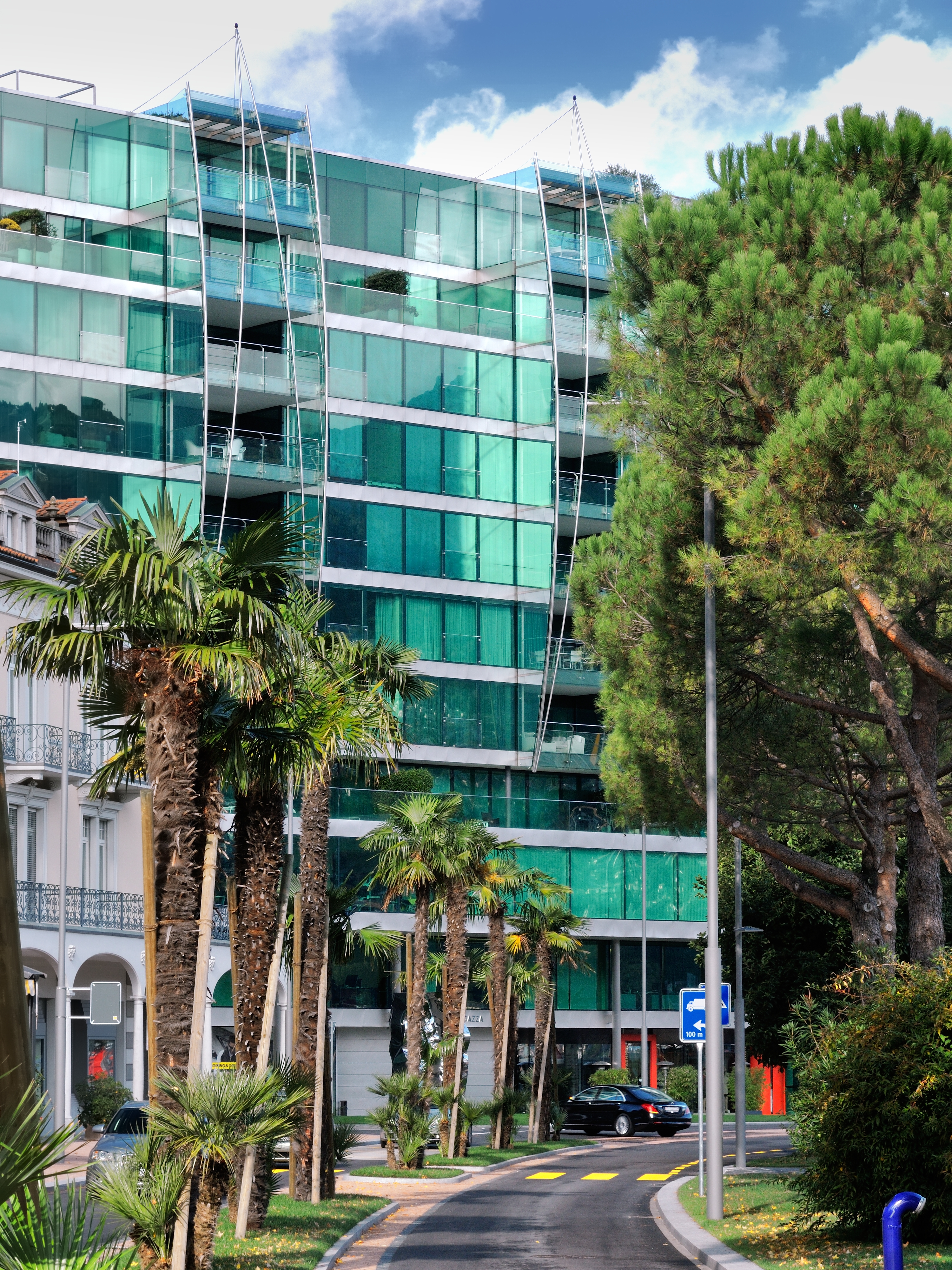 Riva Paradiso, Paradiso. View towards Palazzo Mantegazza